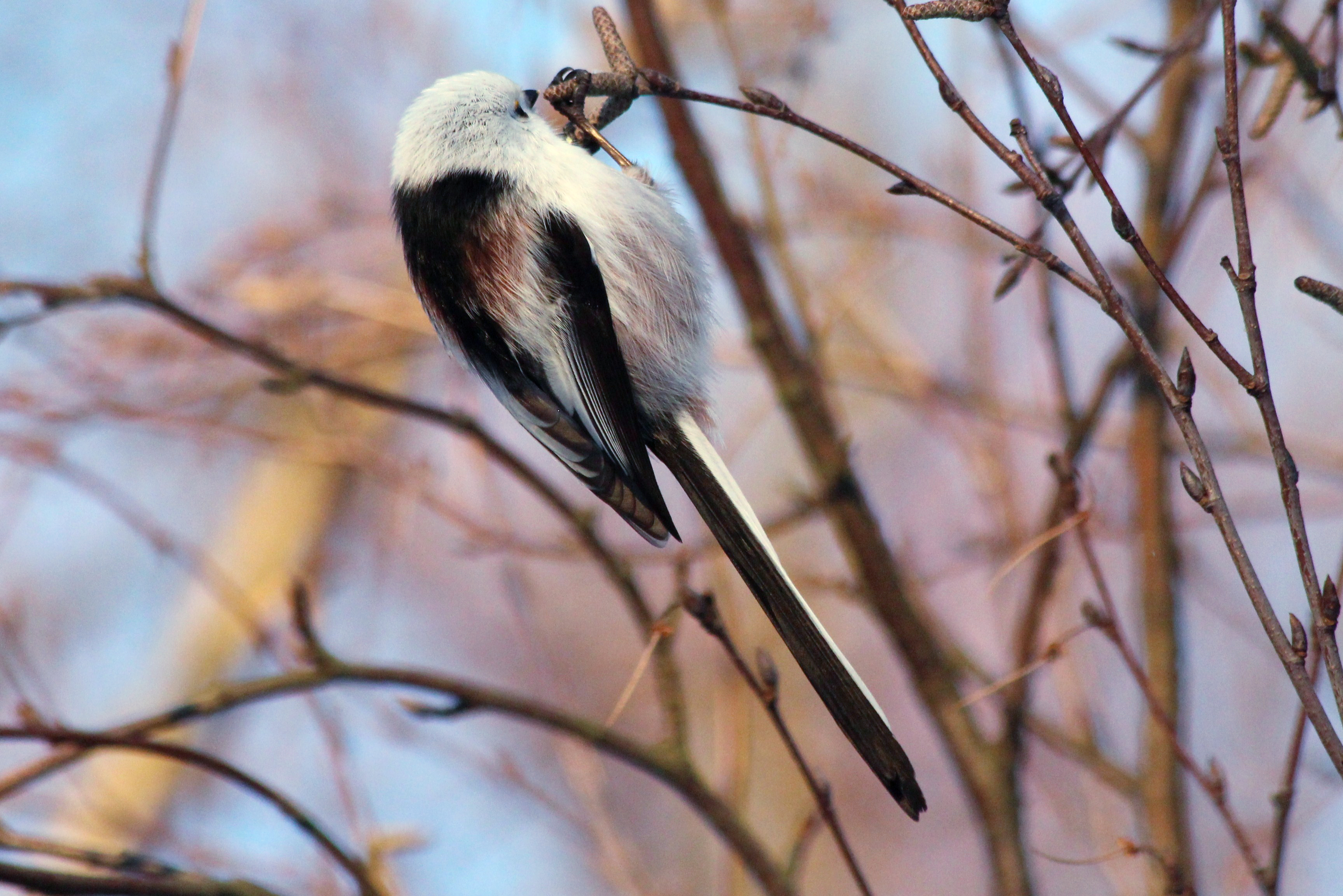 Long-tailed Tit Aegithalos caudatus, Göteborg, Sweden